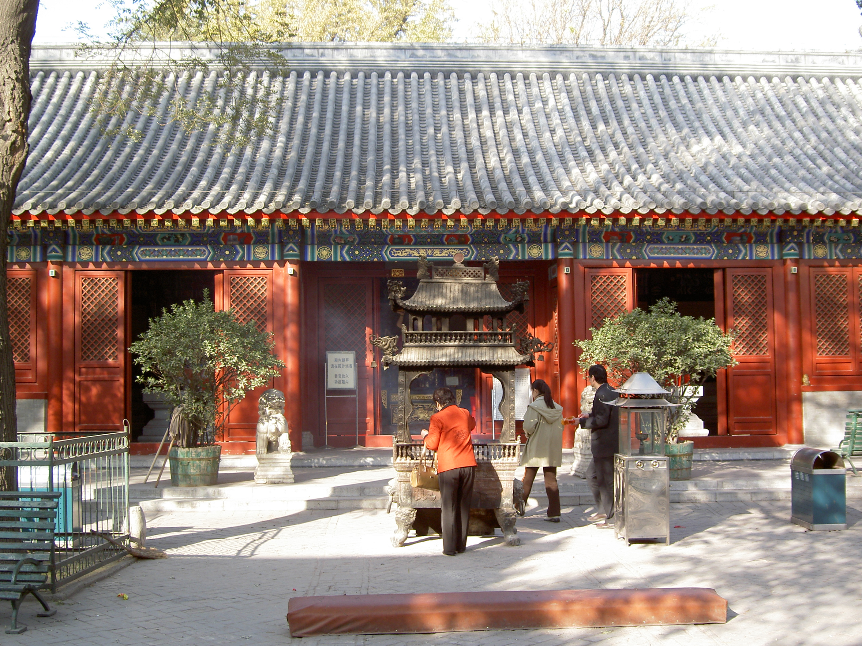 The White Cloud Temple in Beijing